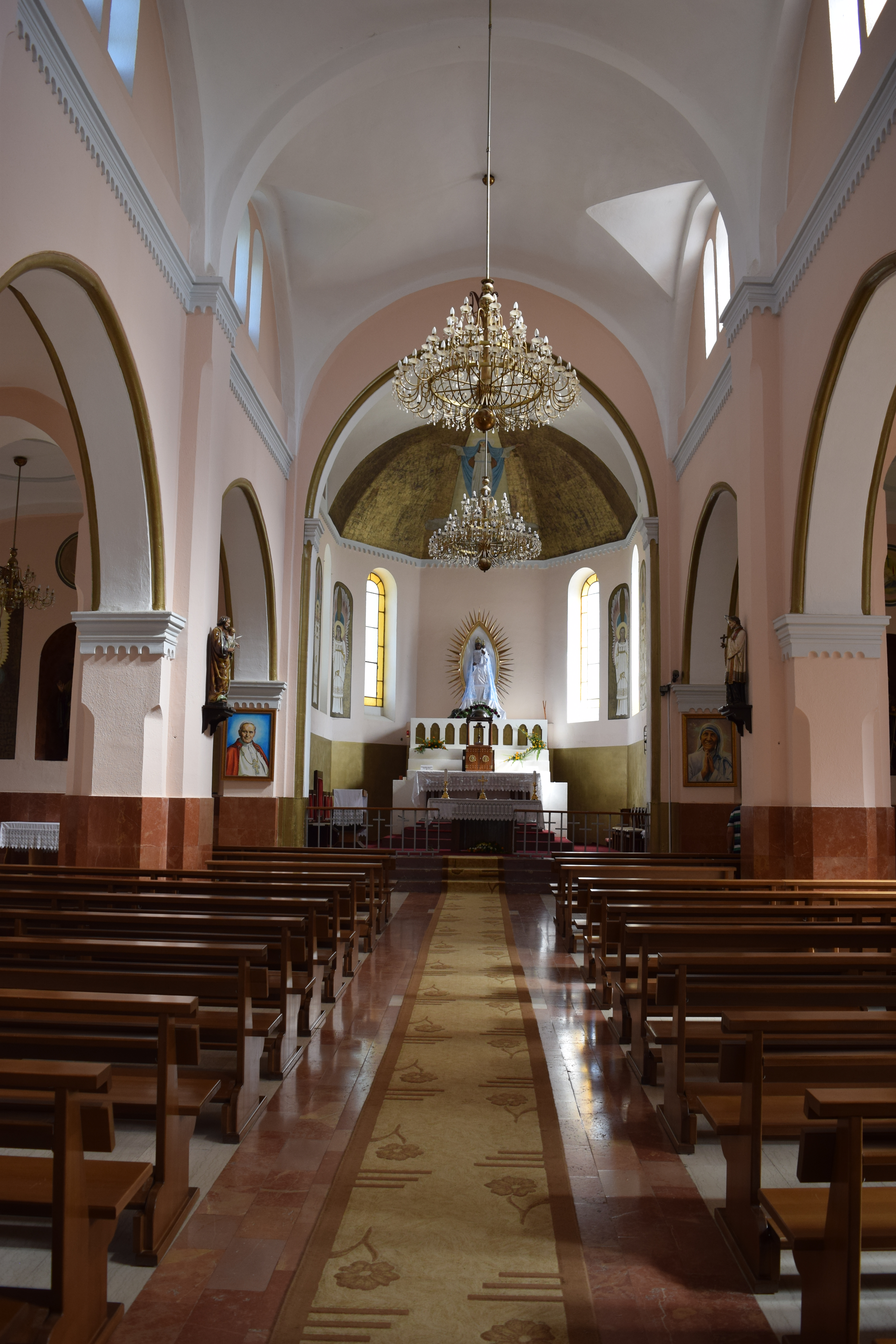 The Roman Catholic church of Letnica, Kosovo, where Mother Teresa served in her early years.